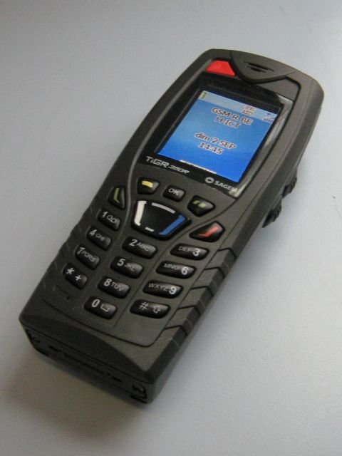 Portable GSM-R